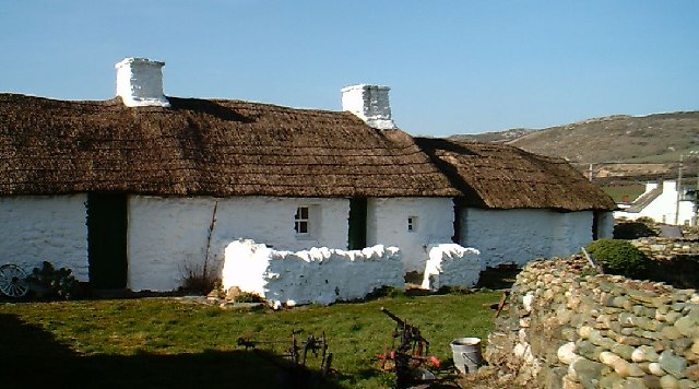 The Last Thatched Cottage on the Isle of Anglesey. Swtan, the last thatched cottage on the Isle of Anglesey is now a Folk Museum, and is beautifully restored.